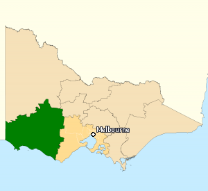 This image incorporates data that is: © Commonwealth of Australia (Australian Electoral Commission) 2009 Division of Wannon 2010